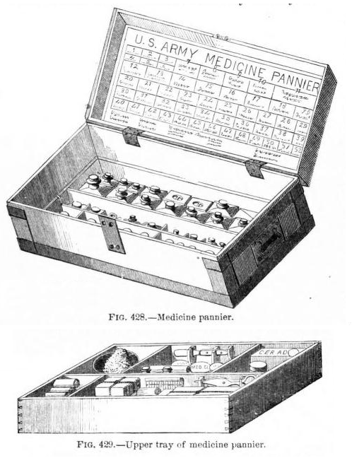 Illustration from The Medical and Surgical History of the War of the Rebellion (USG Printing Office, 1870-88) - Medicine pannier and its upper tray - part III vol 2 pag 916